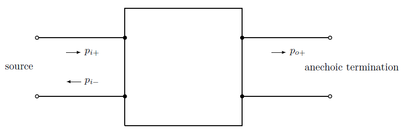 This is a plot used for illustrating TL (duct acoustic)